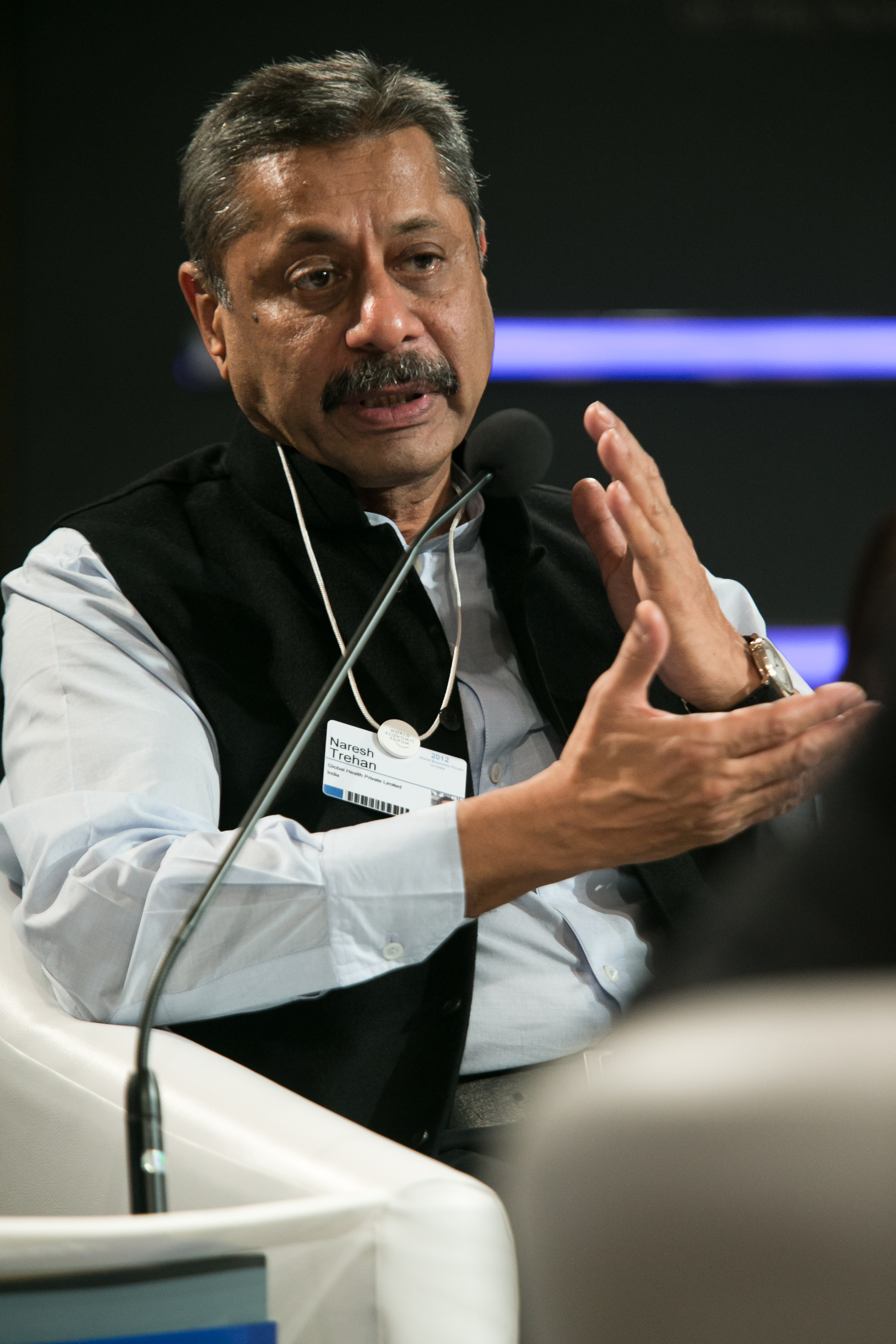 Naresh Trehan, Chairman, Global Health Private, India at the World Economic Forum on India 2012. Copyright World Economic Forum / Photo by Benedikt von Loebell